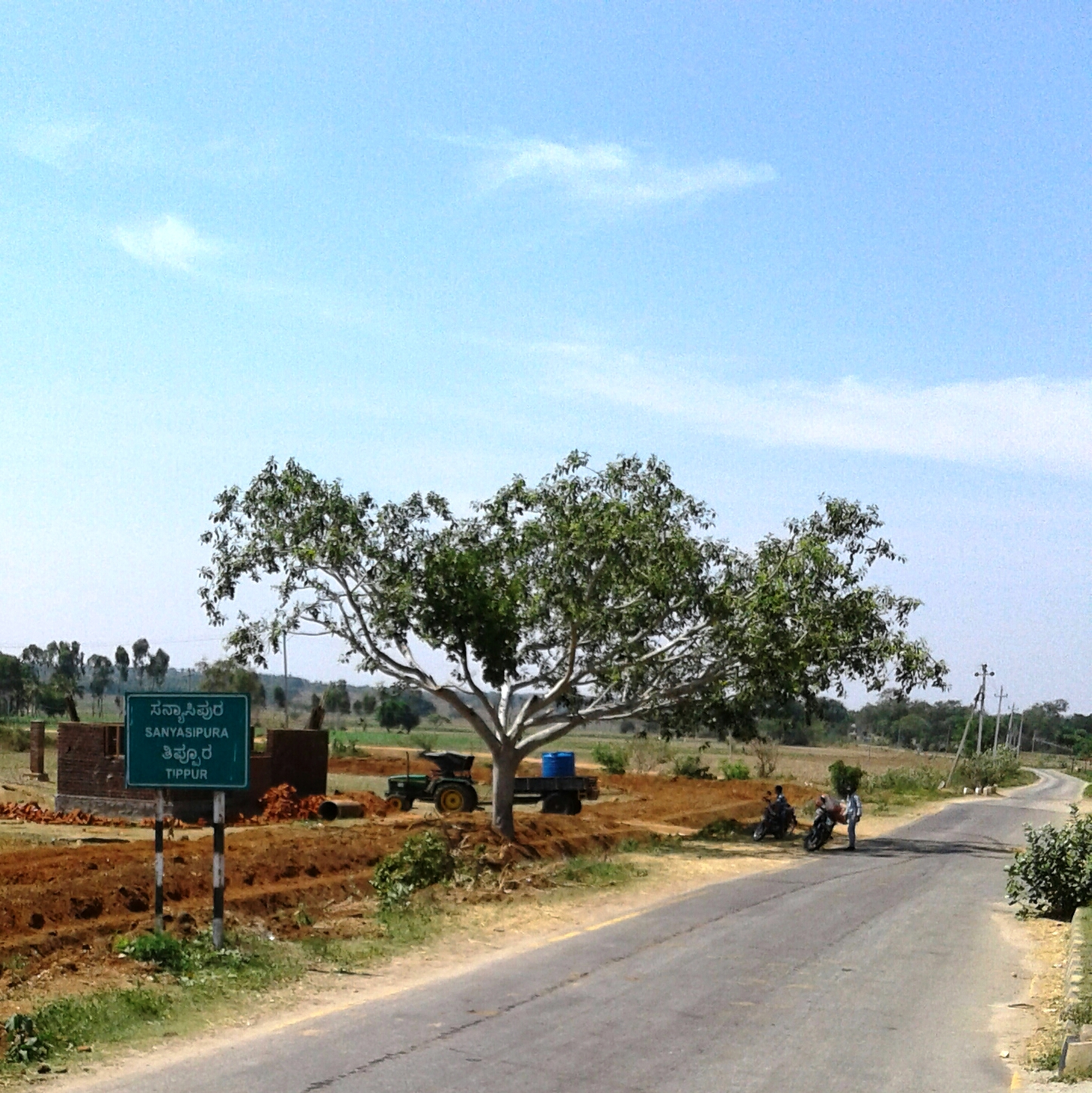 K.R.Nagar,Mysore district, Karnataka state, India.